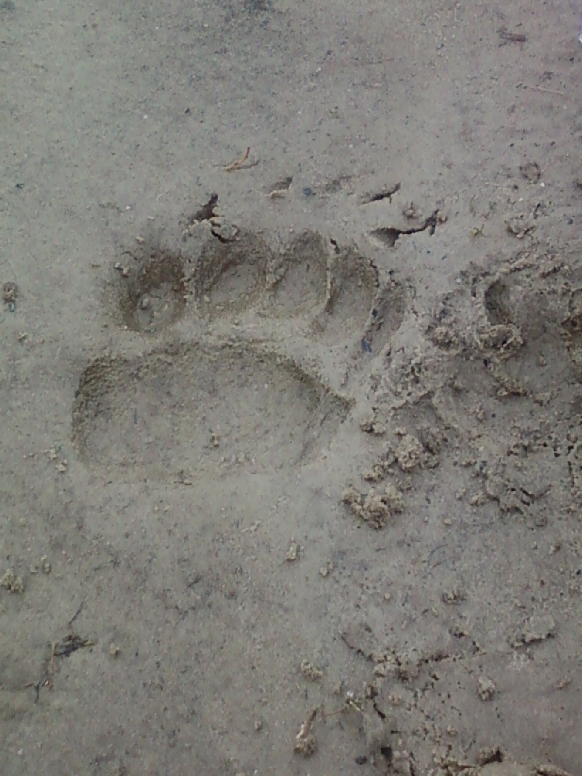 Bear tracks on the road to the mine Nevagal.